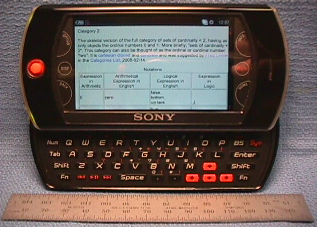 The Sony mylo COM-2 with keyboard open. The length of the steel rule is 15 cm.